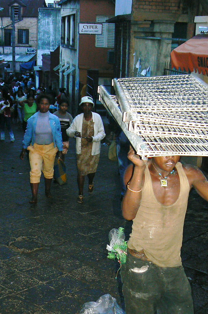 2009 Malagasy political crisis 2009,1,26 Reprint from Flickr